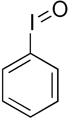 chemical structure of iodosobenzene